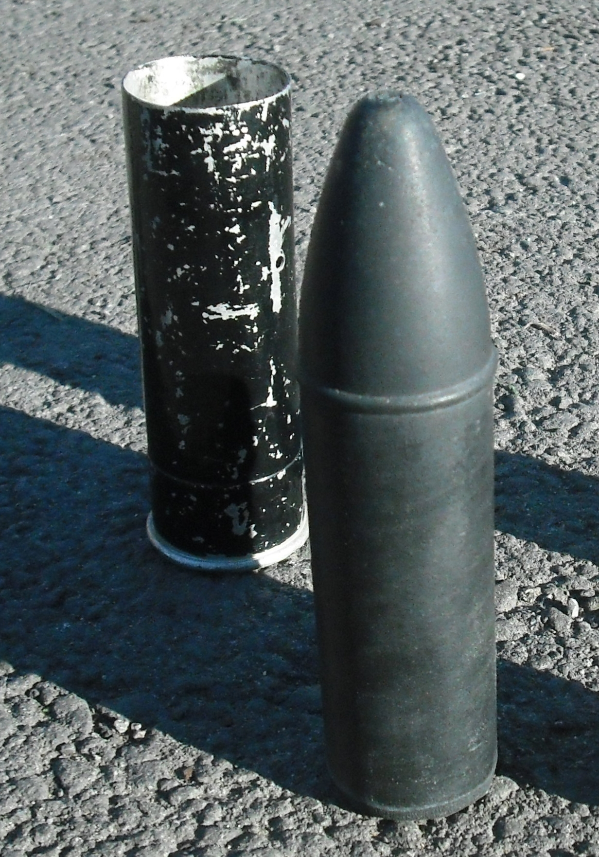 Rubber bullet in 37mm calibre. This is British Army issue, as used during The Troubles in Northern Ireland. 37×122R rubber bullet and casing, as originally issued.